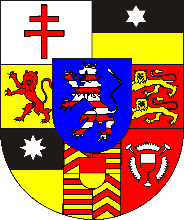 coats of arms of Hessen-Kassel (1736) 1: principlaity of Hersfeld; 2: county of Ziegenhain; 3: county of Katzenelnbogen; 4: county of Diez; 5: count of Nidda; 6: county of Hanau-Münzerberg; 7: county of Schaumburg; heart: Hessen